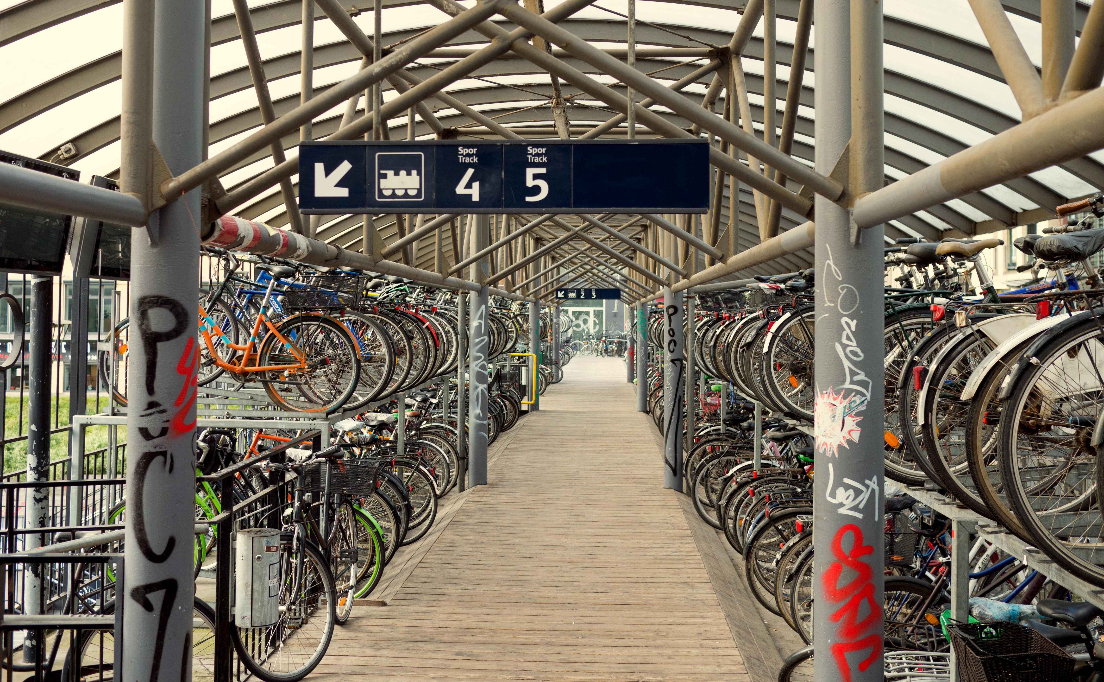 Bikeparing in Aarhus